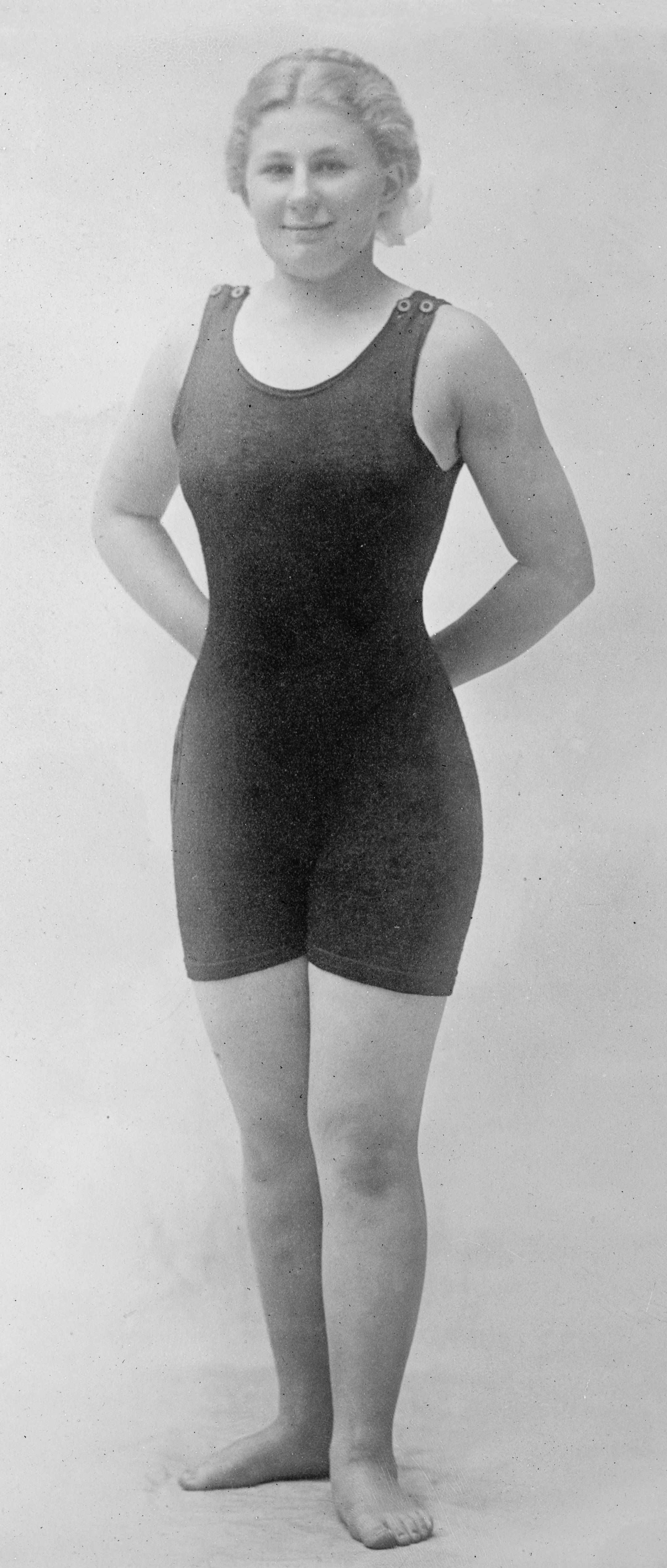 Bain News Service,, publisher. Rose Pitonof [between 1910 and 1915] 1 negative : glass ; 5 x 7 in. or smaller. Notes: Title from unverified data provided by the Bain News Service on the negatives or caption cards. Forms part of: George Grantham Bain Collection (Library of Congress). Format: Glass negatives. Repository: Library of Congress, Prints and Photographs Division, Washington, D.C. 20540 USA, General information about the Bain Collection is available at Persistent URL: Call Number: LC-B2- 2521-2